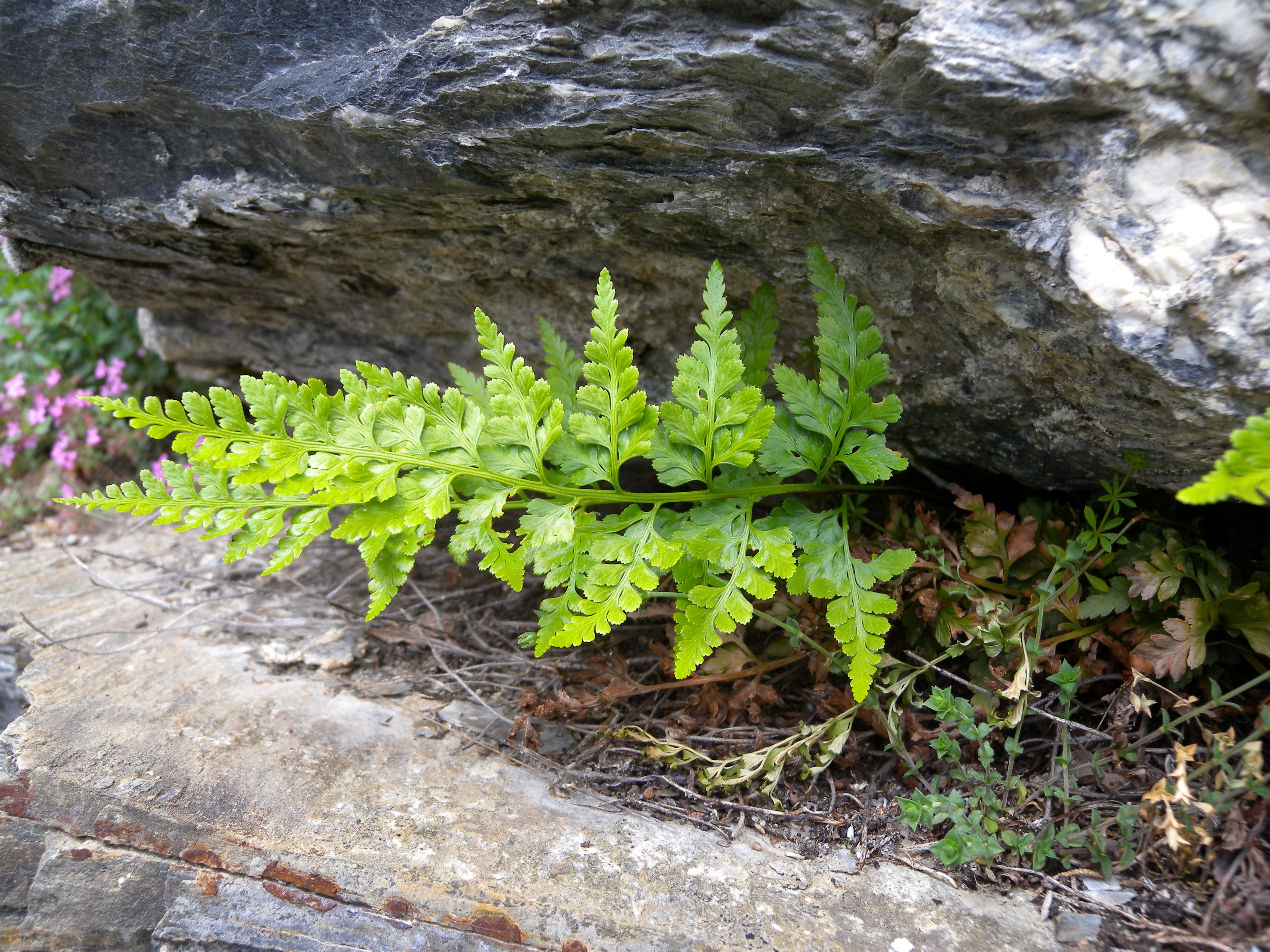 Asplenium adiantum-nigrum (Aspleniaceae); Erschmatt, Canton of Valais, Switzerland